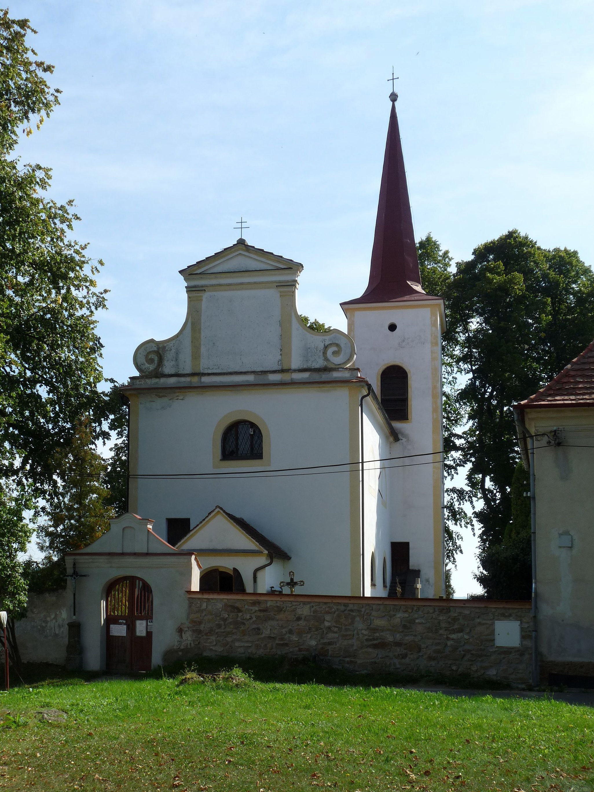 Church of Sending Saint Apostles in the township of Dub, Prachatice District, Czech Republic.